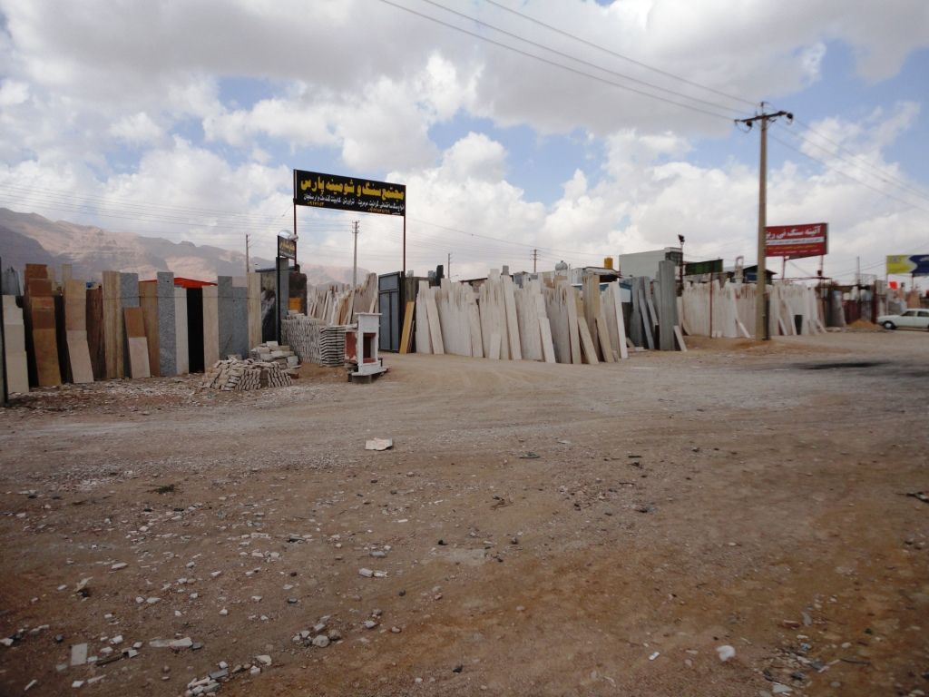 shiraz